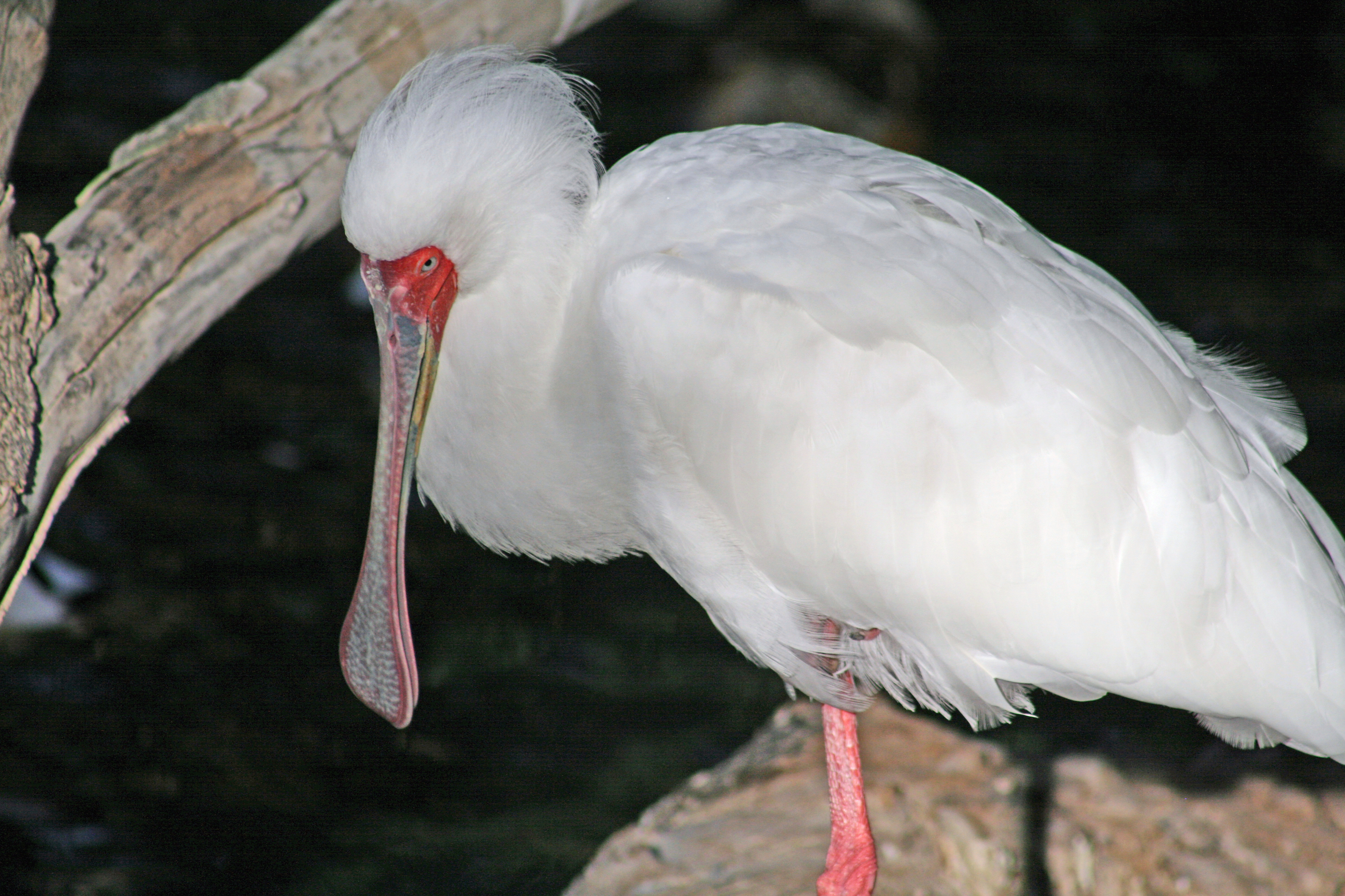 An Afircan Spoonbill seen at the Wild Animal Park in Escondido, CA. I really like the expression in this photo, even though I had other pics that were better lit I just couldn't resist that look. View On Black